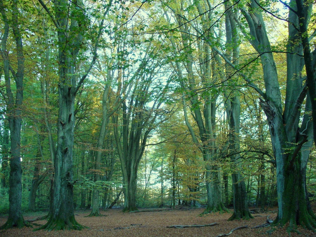 Old beech-forest at the entrance to the nature reserve "Urwald Sababurg", Reinhardswald north of Kassel, Hessen, Germany